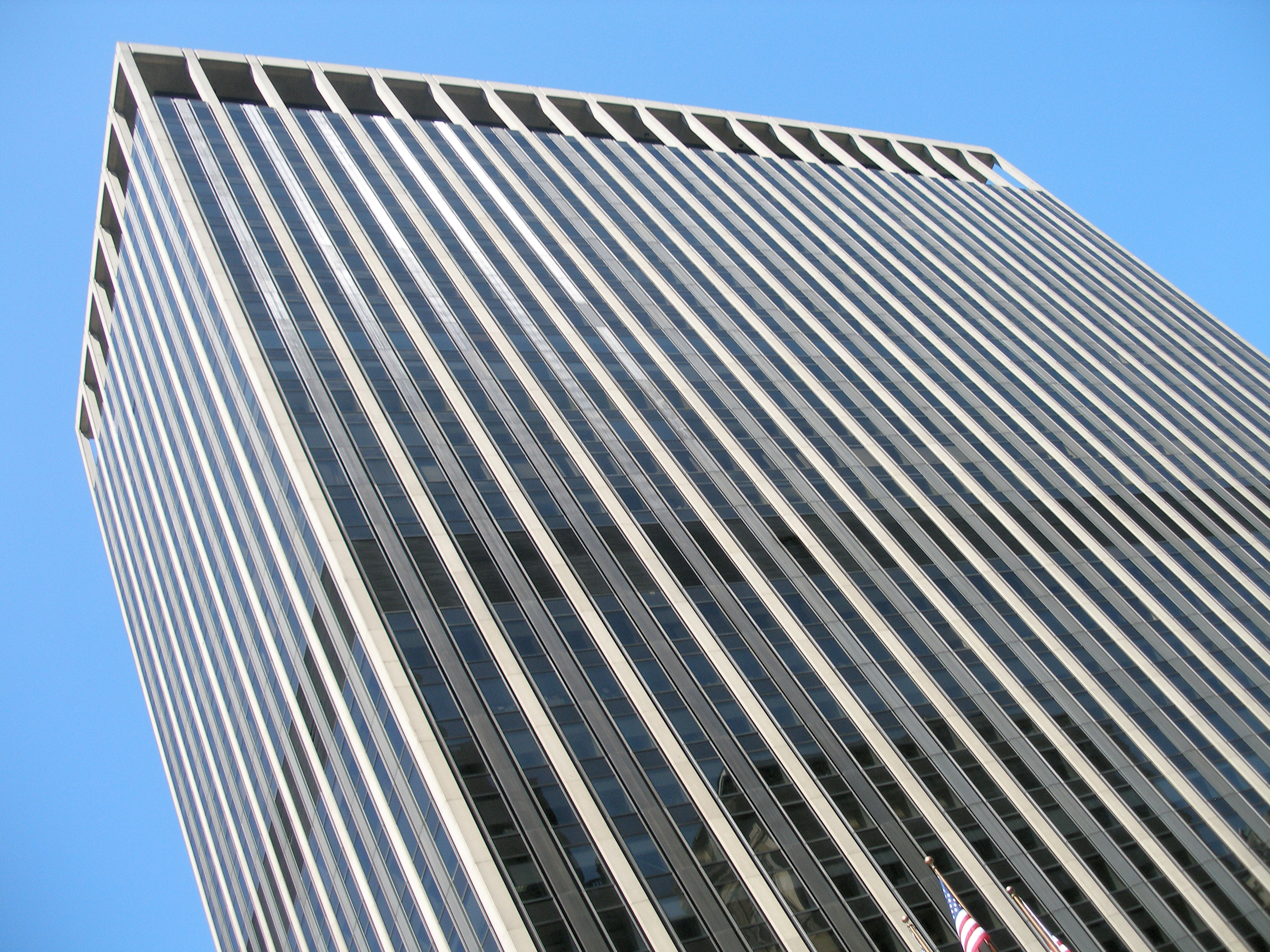 Two Penn Plaza in New York, New York next to Madison Square Garden. The Association for Computing Machinery has its headquarters on the 7th floor.